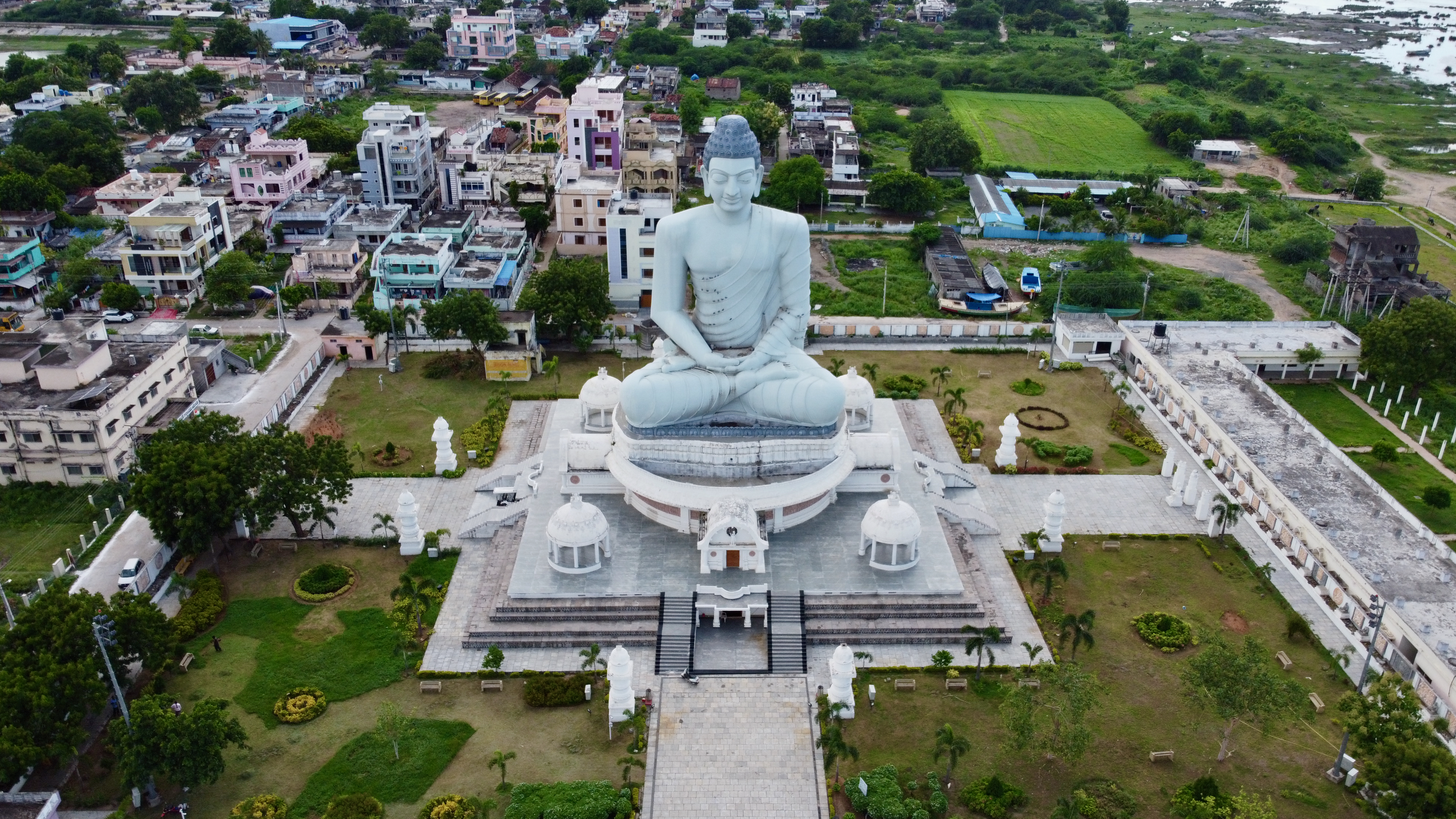 Aerial view of Dhyana Buddha statue in Amaravathi